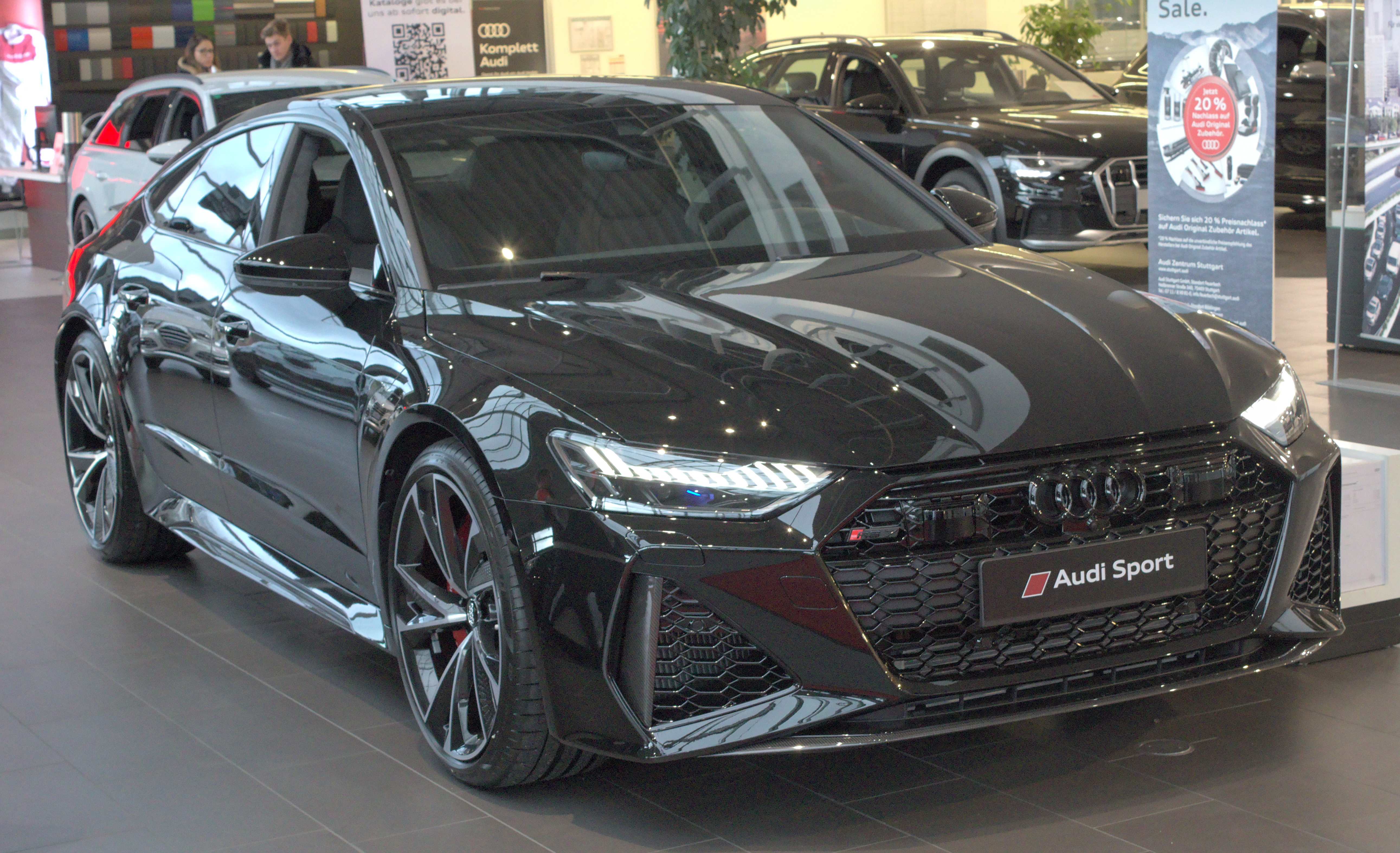 Audi_RS7_C8 in Stuttgart-Vaihingen